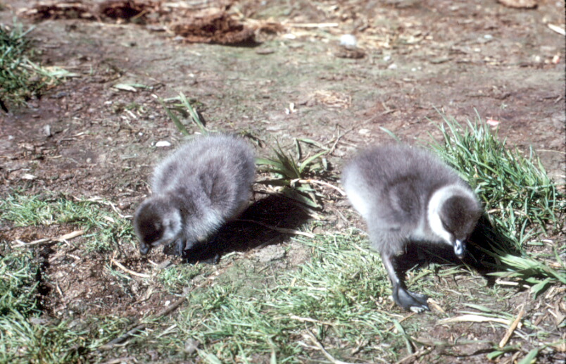 Brent Goose (Branta bernicla) goslings